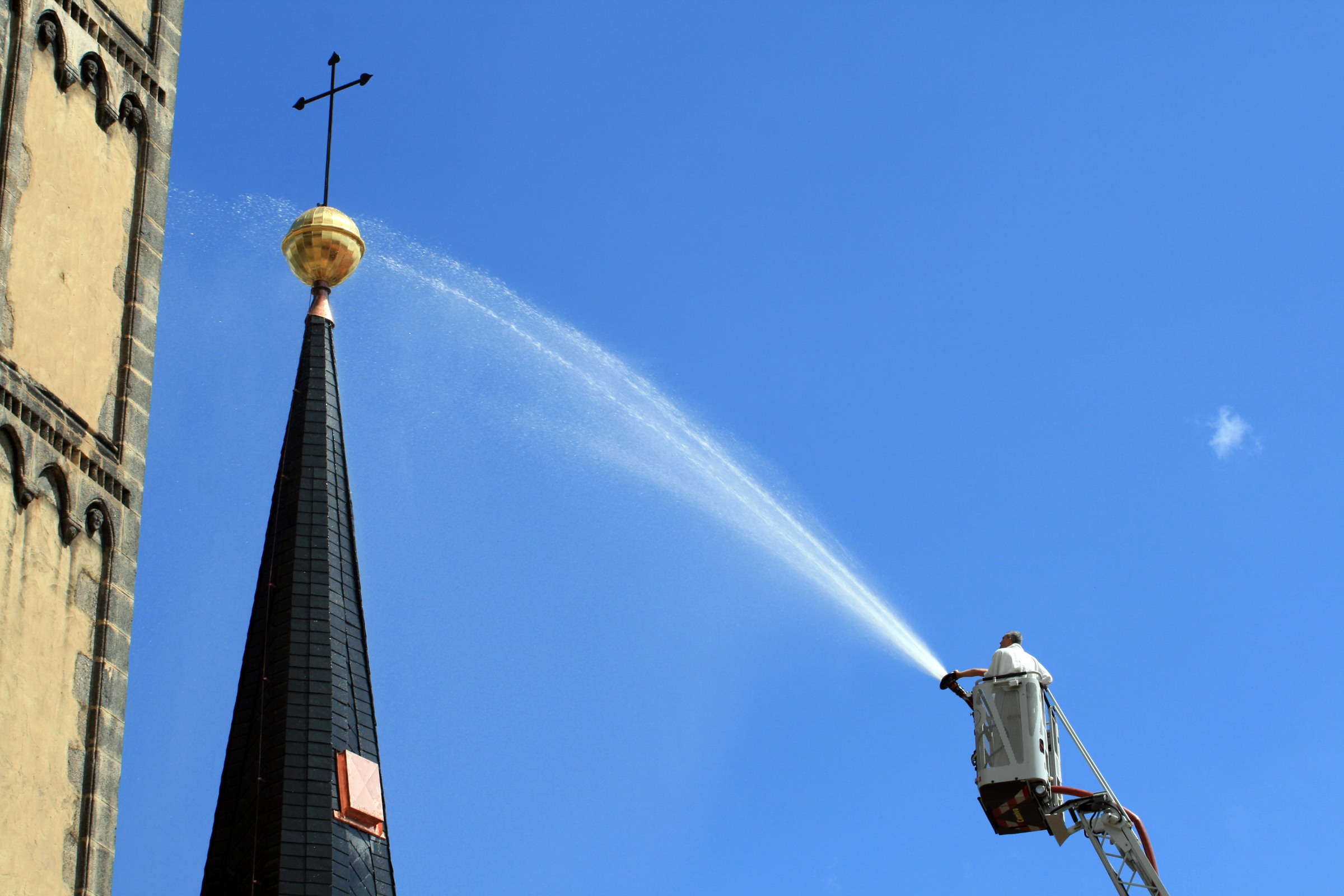 Sanctification of new church towers of Church of St. Nicolas in Cheb, Czech Republic (Priest spreading Holy water on tower)